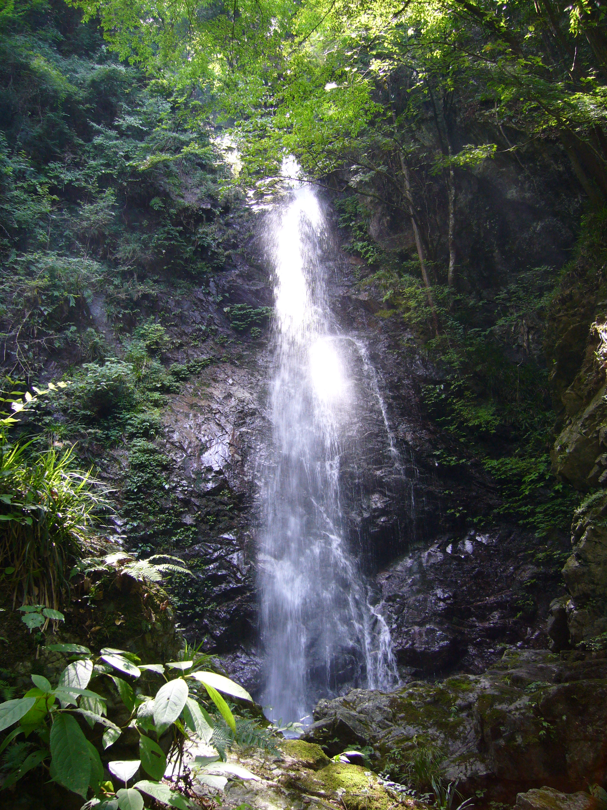 Hossawa Falls in Tokyo, Japan払沢の滝（東京都桧原村）